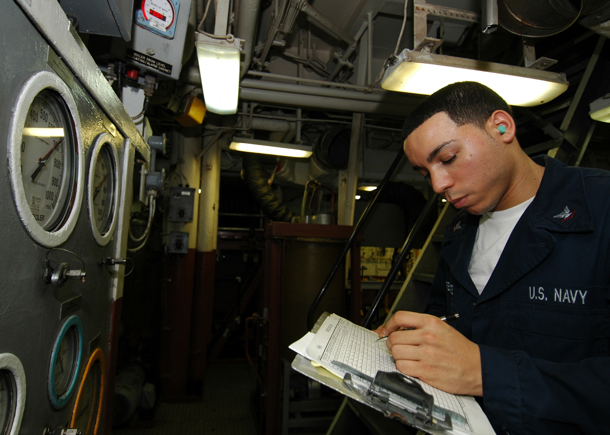 RED SEA (Sept. 26, 2008) Machinist's Mate 3rd Class Jason Ferrante takes readings in the engine room of the multi-purpose amphibious assault ship USS Iwo Jima (LHD 7). Iwo Jima is deployed as part of the Iwo Jima Expeditionary Strike Group supporting maritime security operations in the U.S. 5th Fleet area of responsibility. (U.S. Navy photo by Mass Communication Specialist Seaman Chad R. Erdmann/Released)